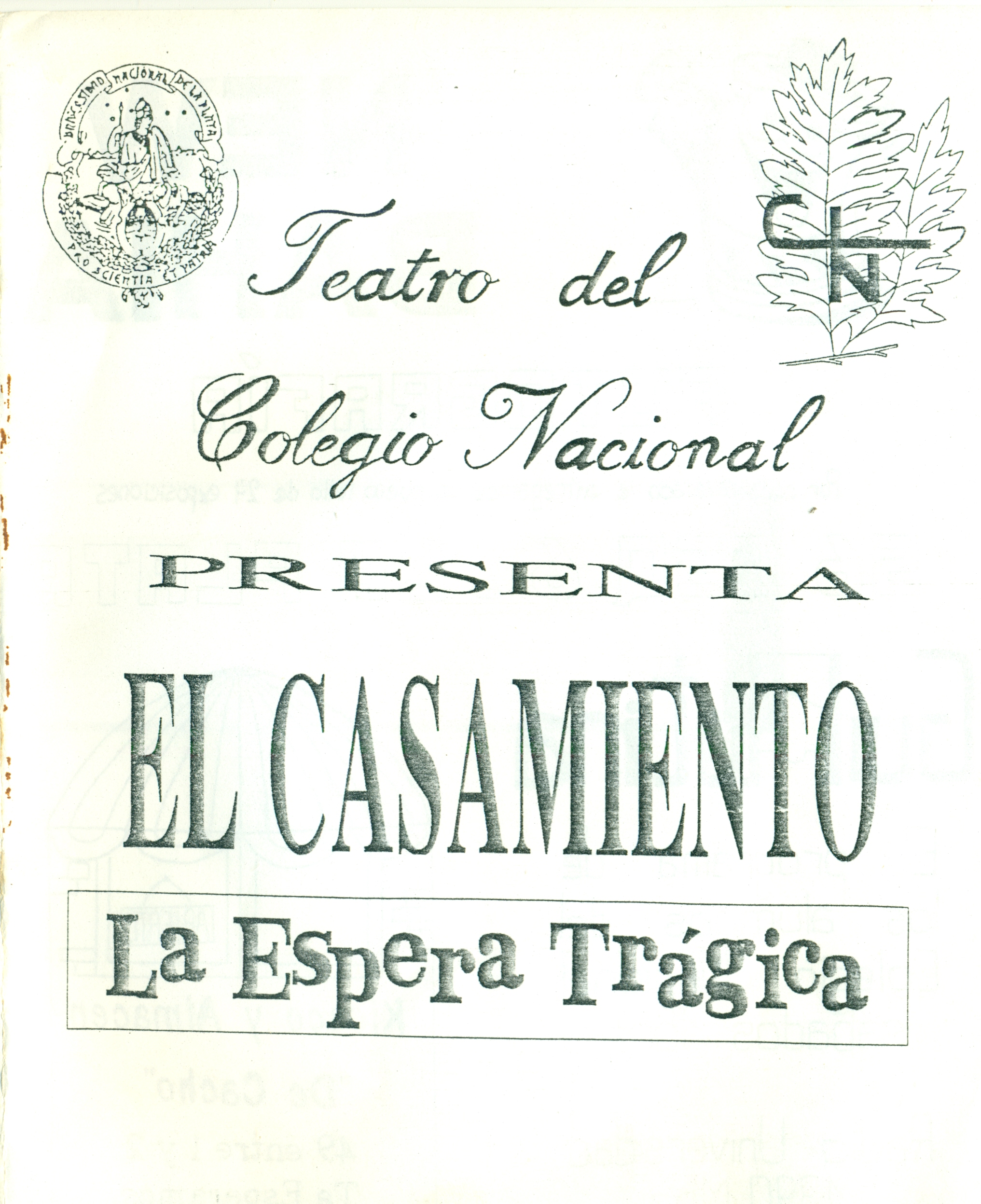 Historical publicity from the CNLP's theater